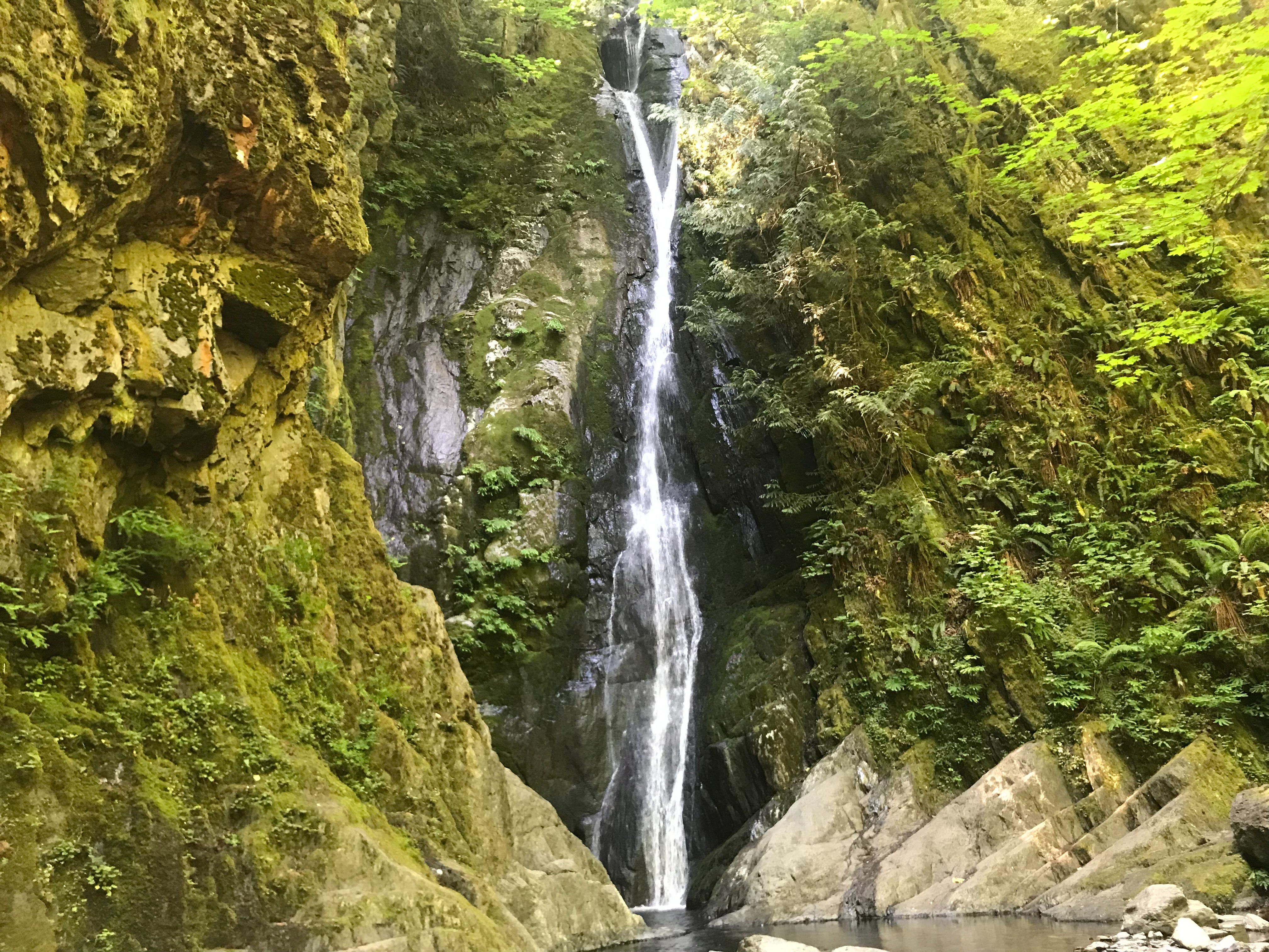 Goldstream Provincial Park, Langford, Canada, June 2018